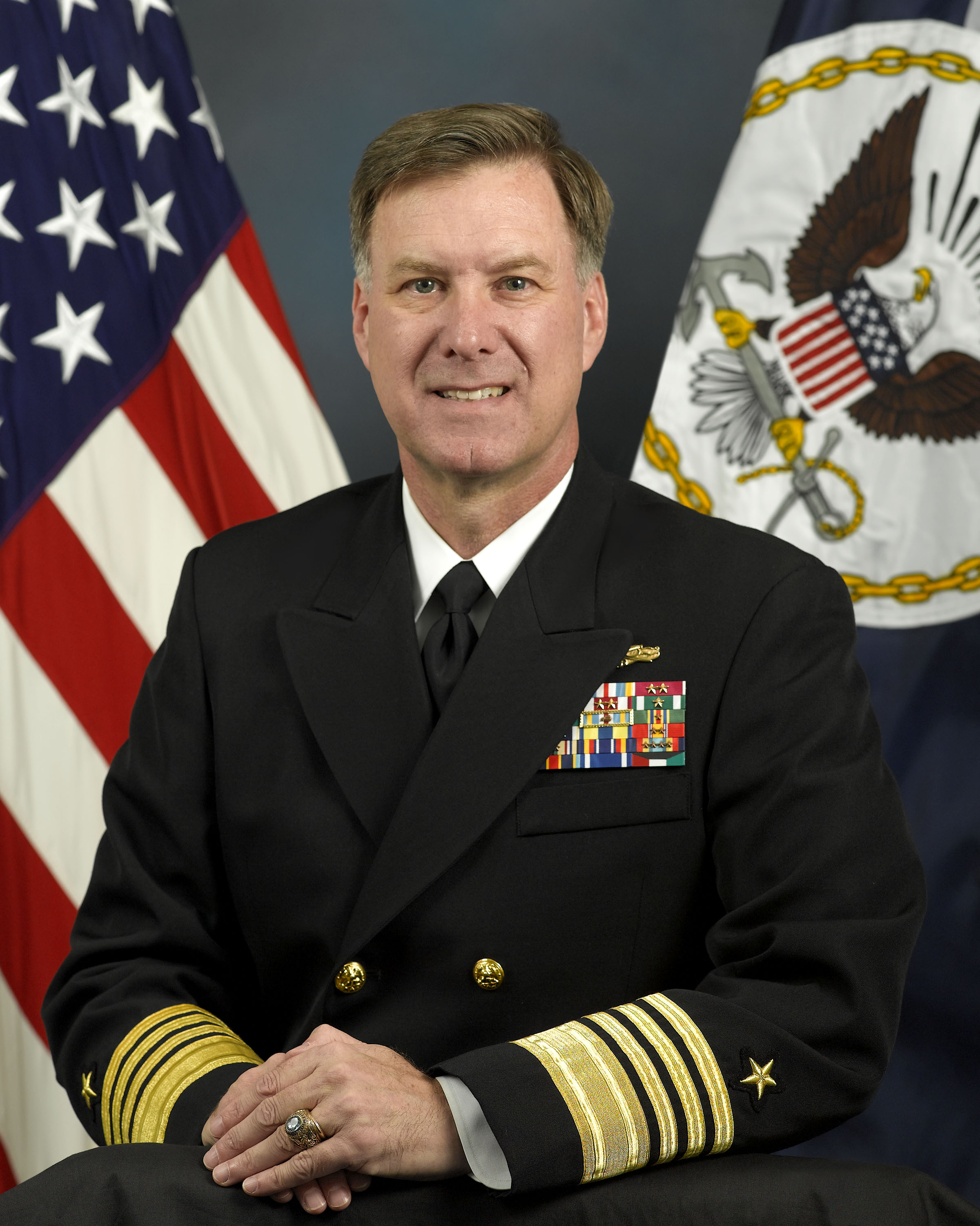 Admiral Mark E. Ferguson III, USN, 37th Vice Chief of Naval Operations